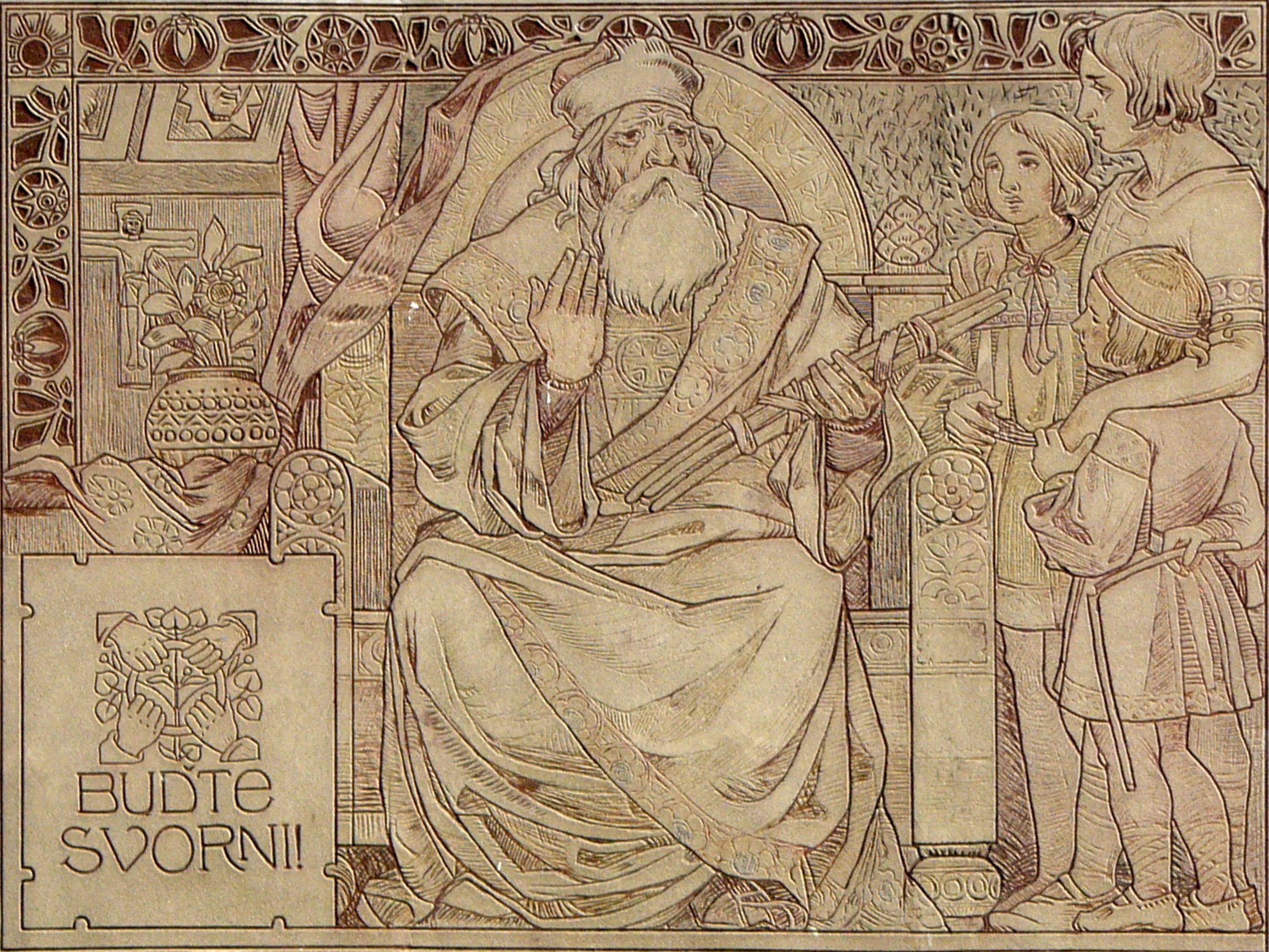 Svatopluk I with three twigs according Legend of Svatopluk's twigs and his three sons Mojmír II, Svatopluk II and Predstav. This sgraffito style work is in Prostějov Castle and is a 1900-1901 creation.